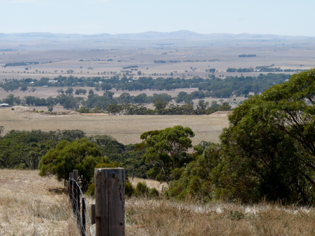 The town of Laura looking east from the Quarry Rd lookout